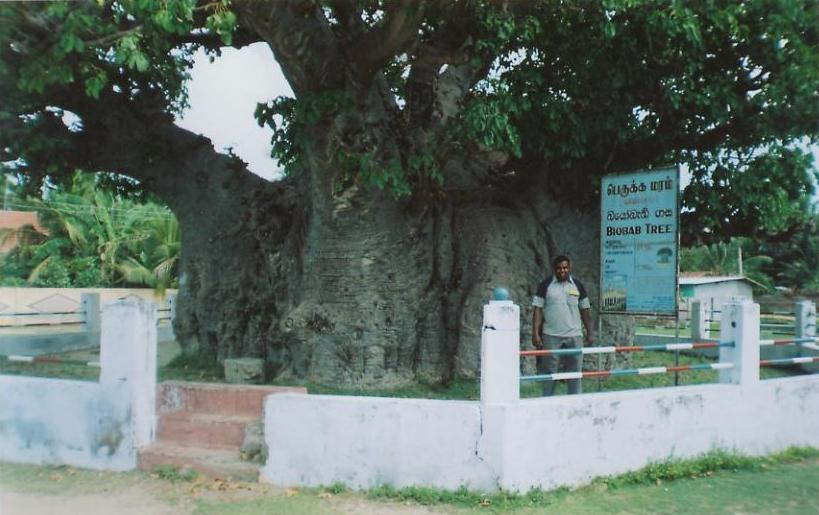 This is picture of Bibob Tree in Mannar town Sri Lanka